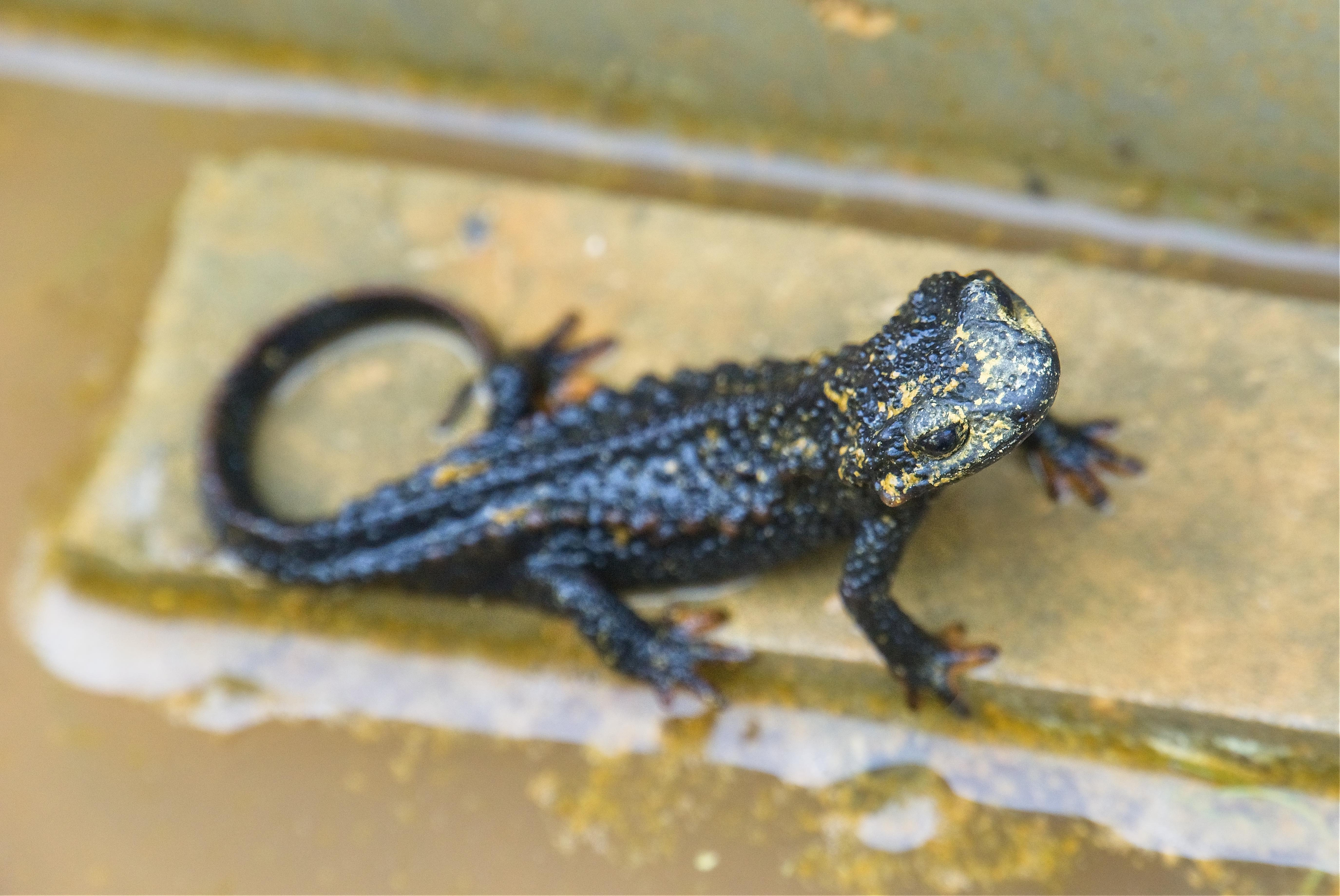 Another of the gutter salamander shots OIST construction site